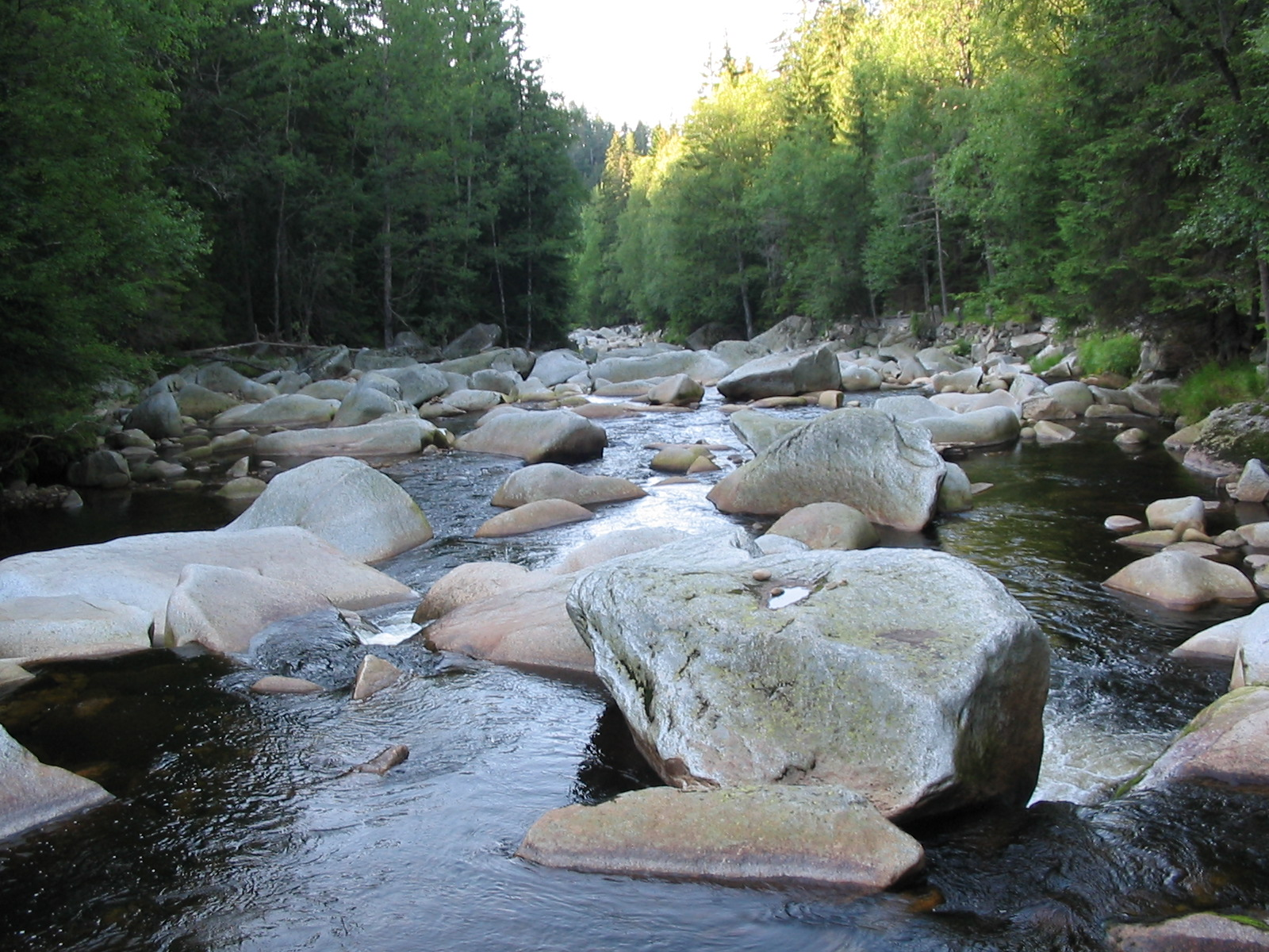 River Vydra, tributary of Otava, Czech republic